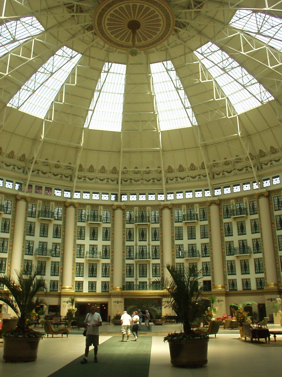 Atrium and dome of the West Baden Springs Hotel (built 1901) — in West Baden, Indiana.